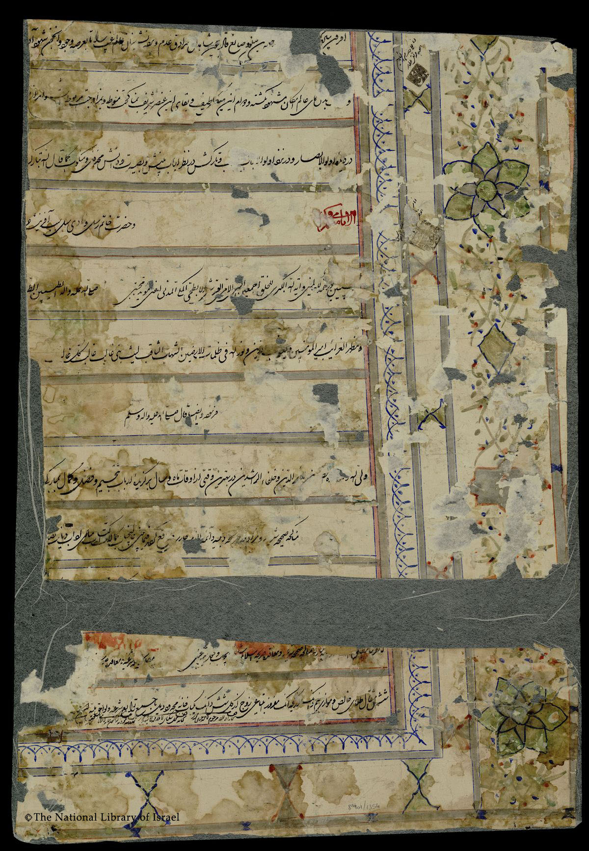 Taken from The Ketubot Collection of the National Library of Israel